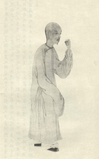 Ding Jing, scholar of the Qing Dynasty.